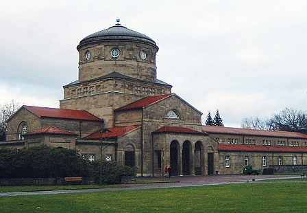 the portal of the Frankfurt main-graveyard